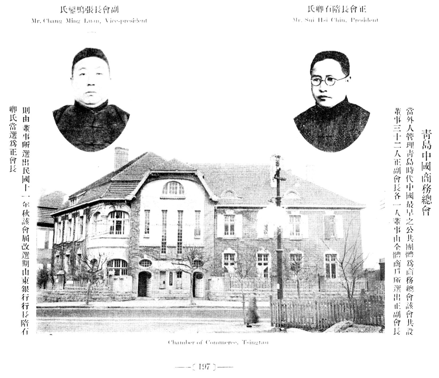 Qingdao General Chamber of Commerce